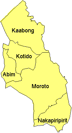 Map of Karamoja region including new districts